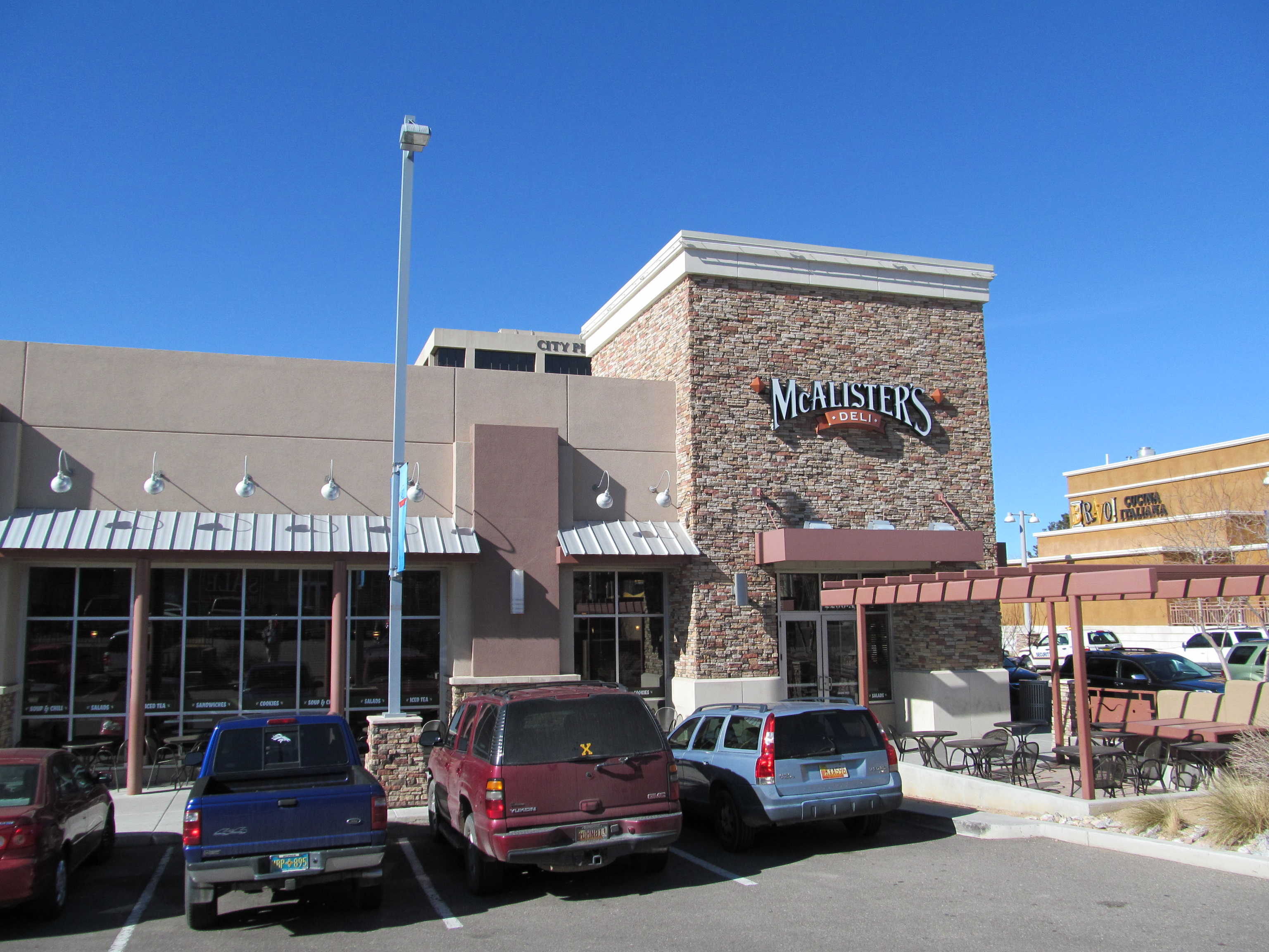 McAlisters Deli, Uptown, Albuquerque New Mexico